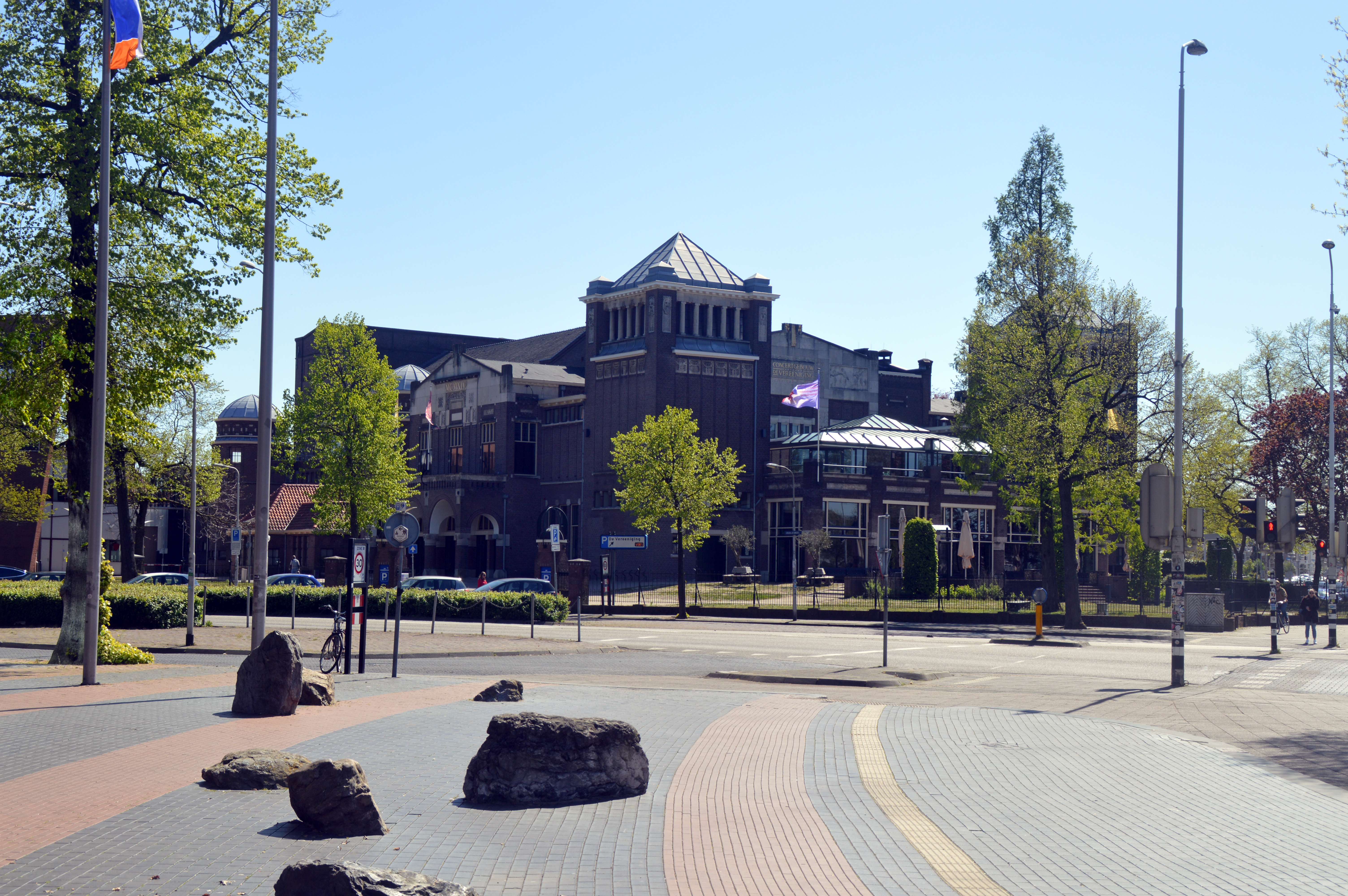 Concertgebouw de Vereeniging Nijmegen Art Deco Jugendstil 1915 Concert hall Opera